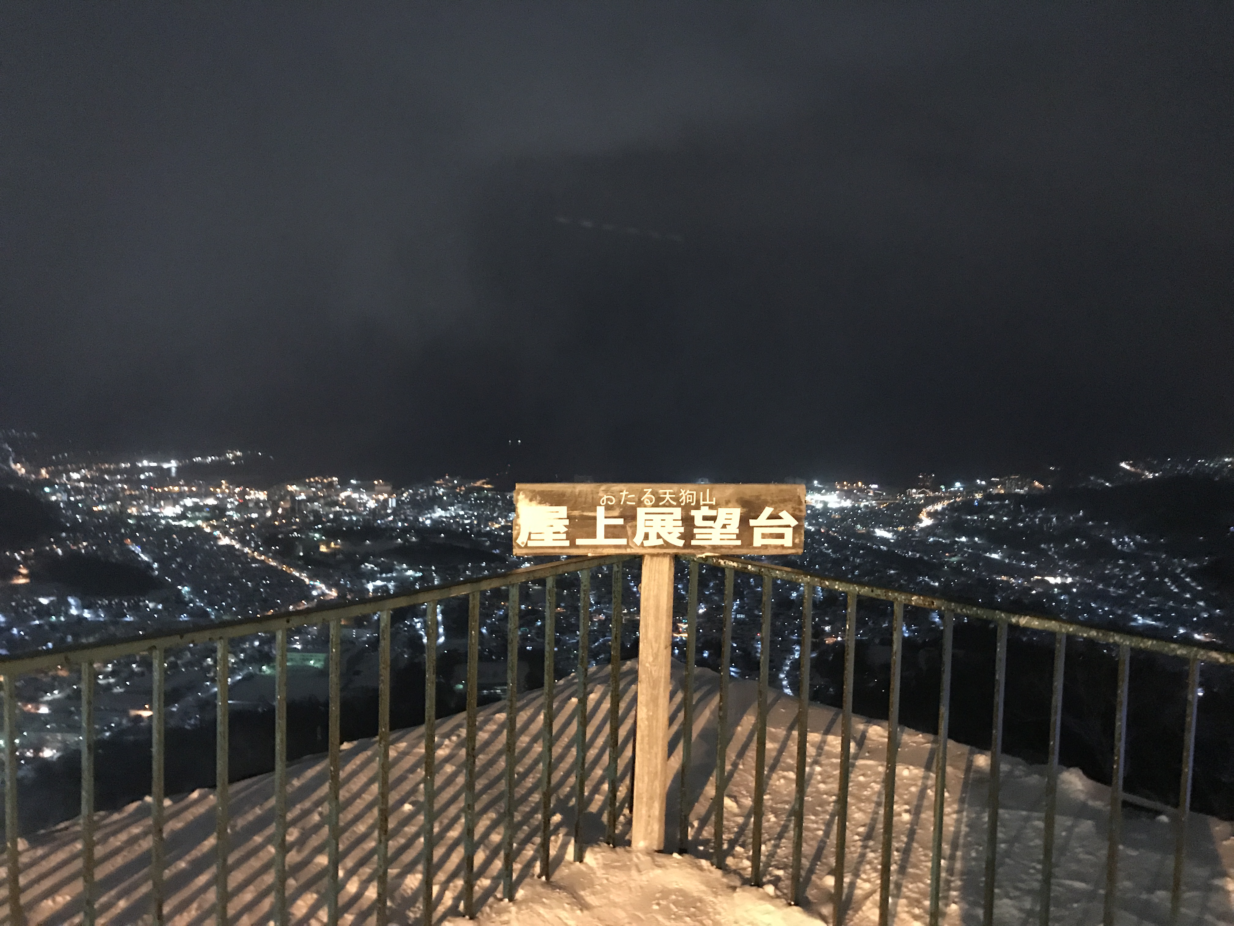 MT. Tengu